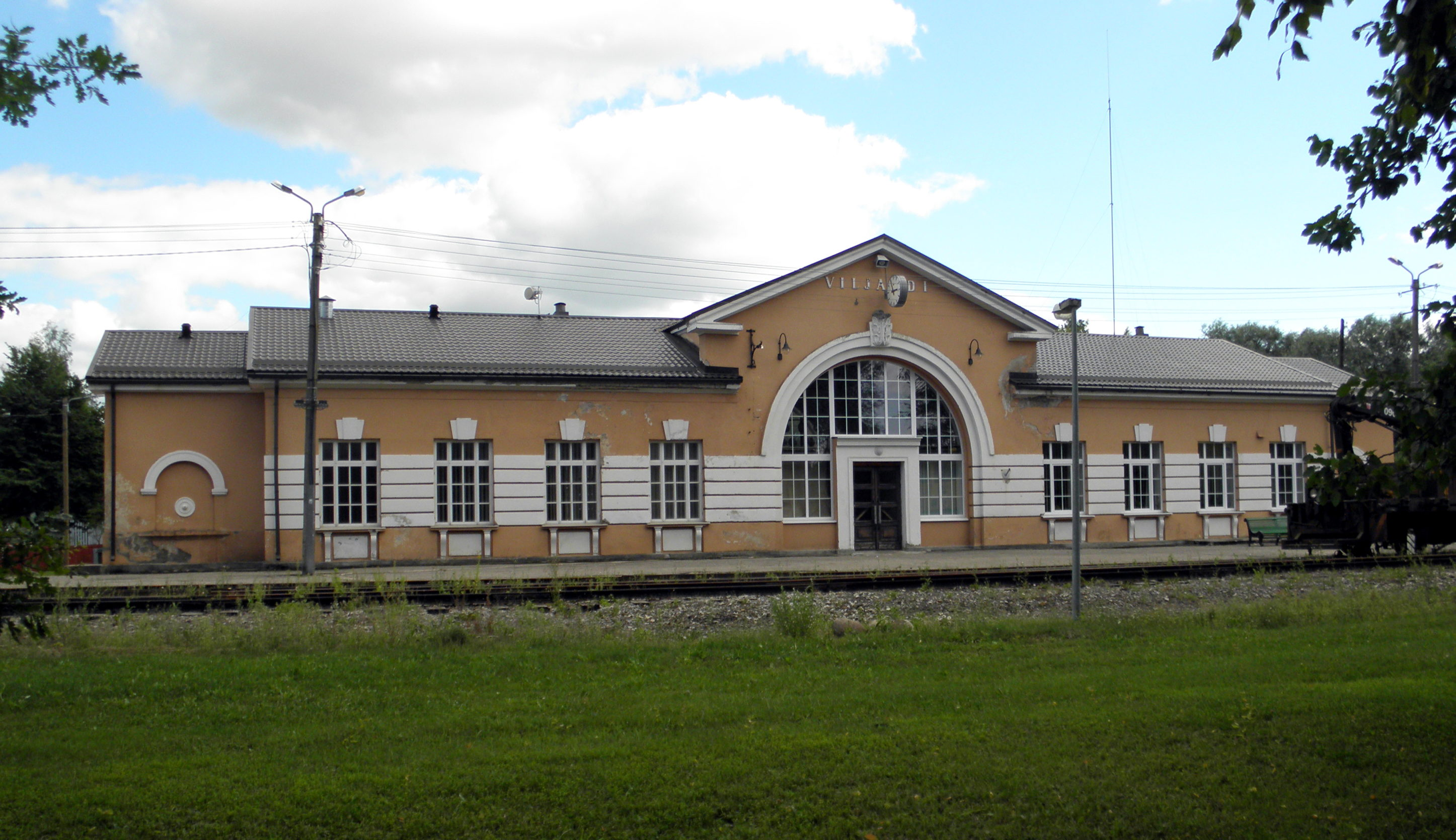 Viljandi railway station, Estonia